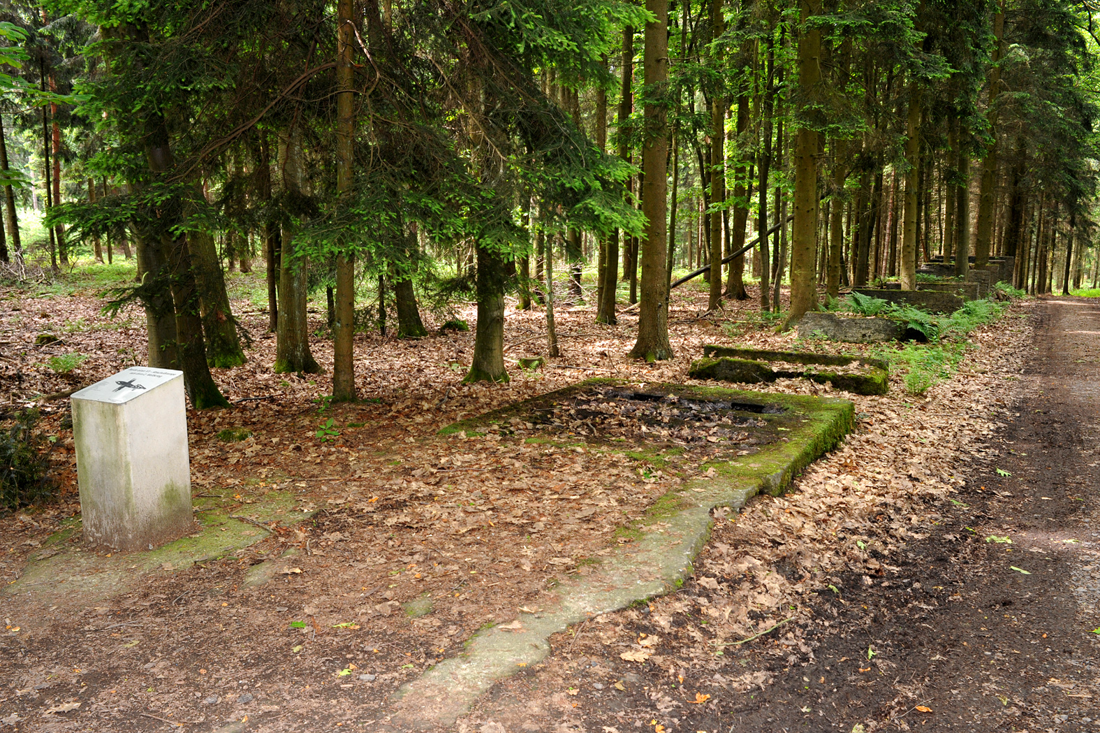 V1-site 328 Asberg northeast of Bruchhausen, info panel and fundaments of the launch pad; Rhineland-Palatinate, Germany.